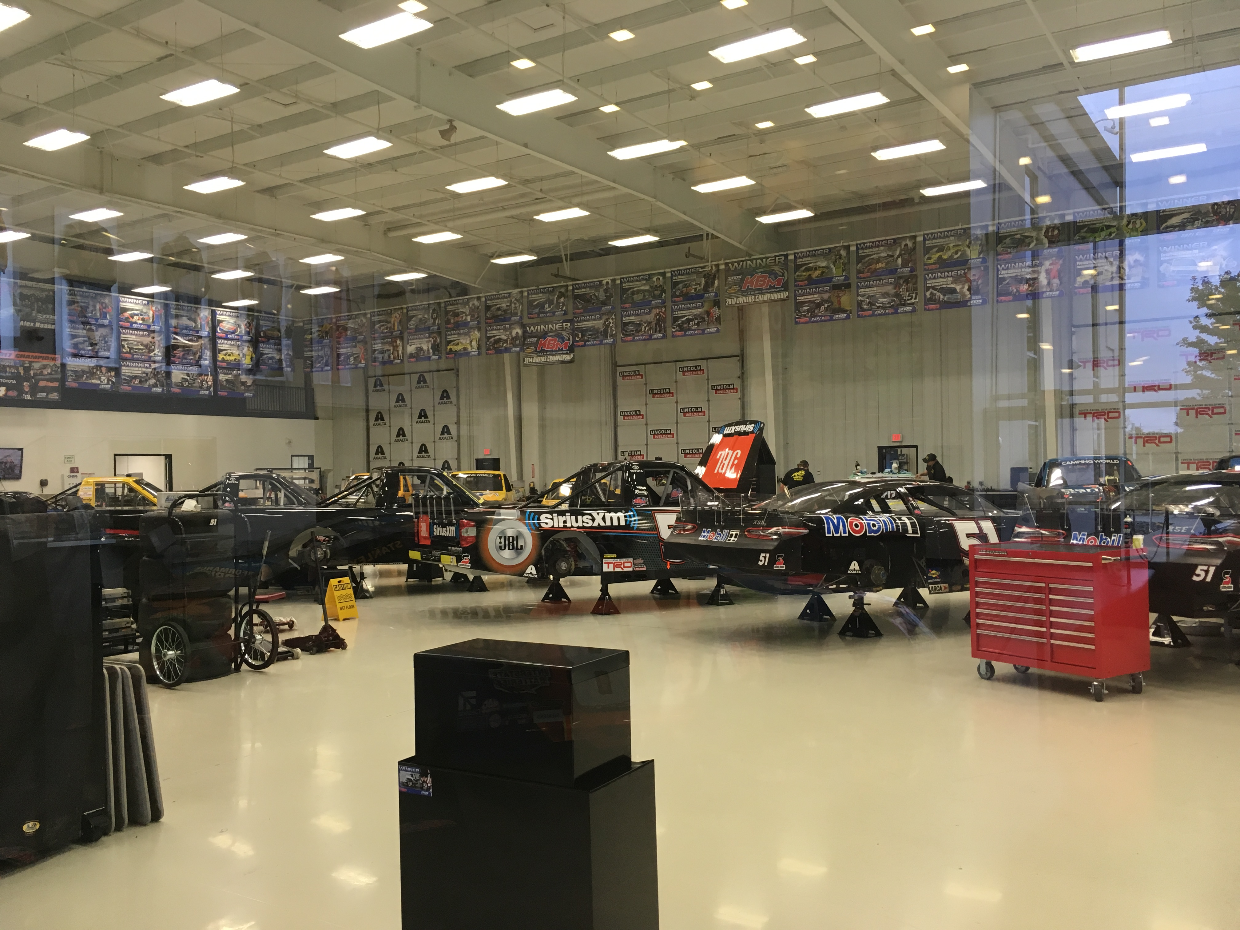 The shop floor of the Kyle Busch Motorsports race shop in Mooresville, North Carolina